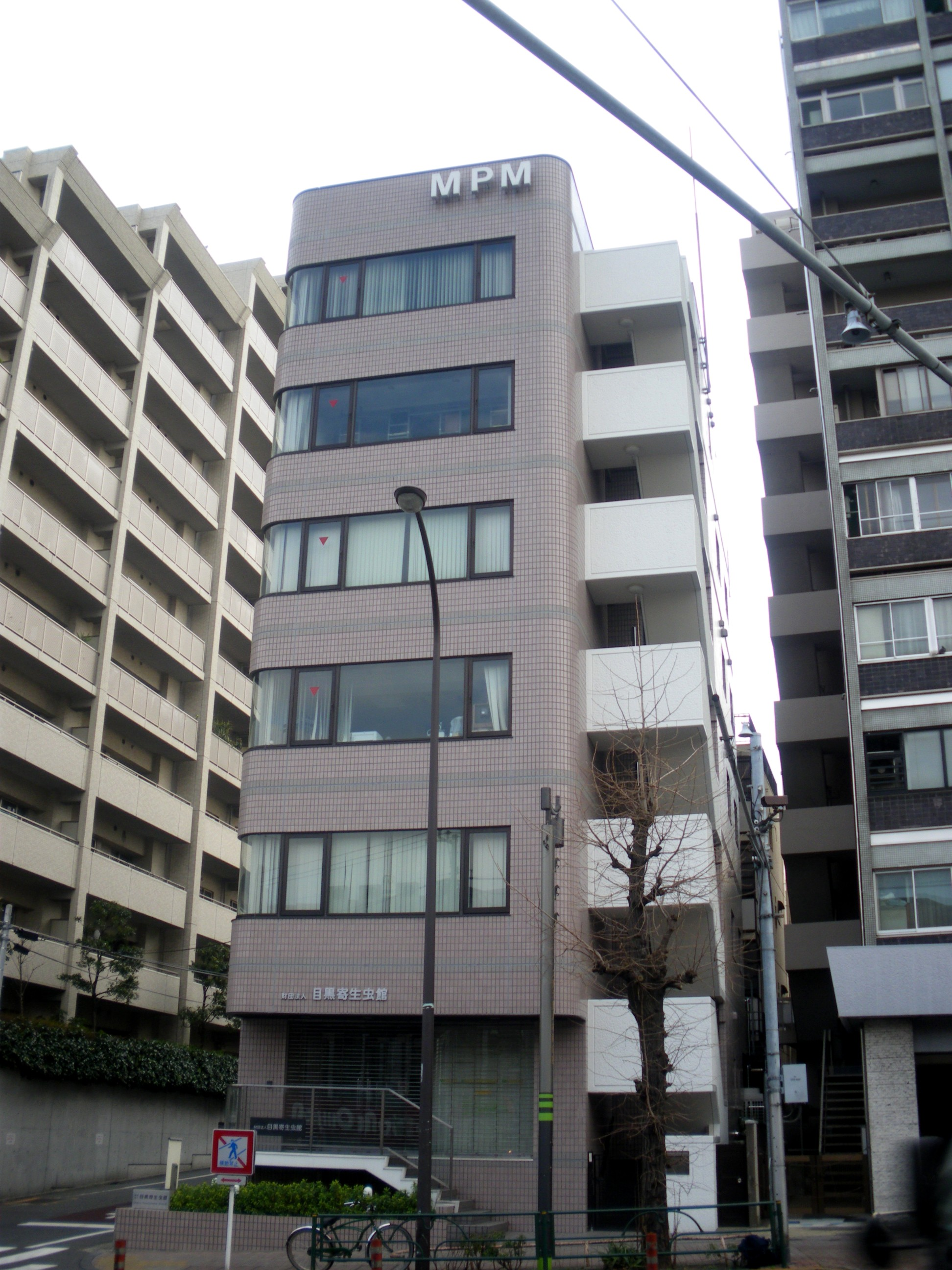 A photo of Meguro Parasitological Museum,Shimomeguro,Meguro-ku,Tokyo,Japan.